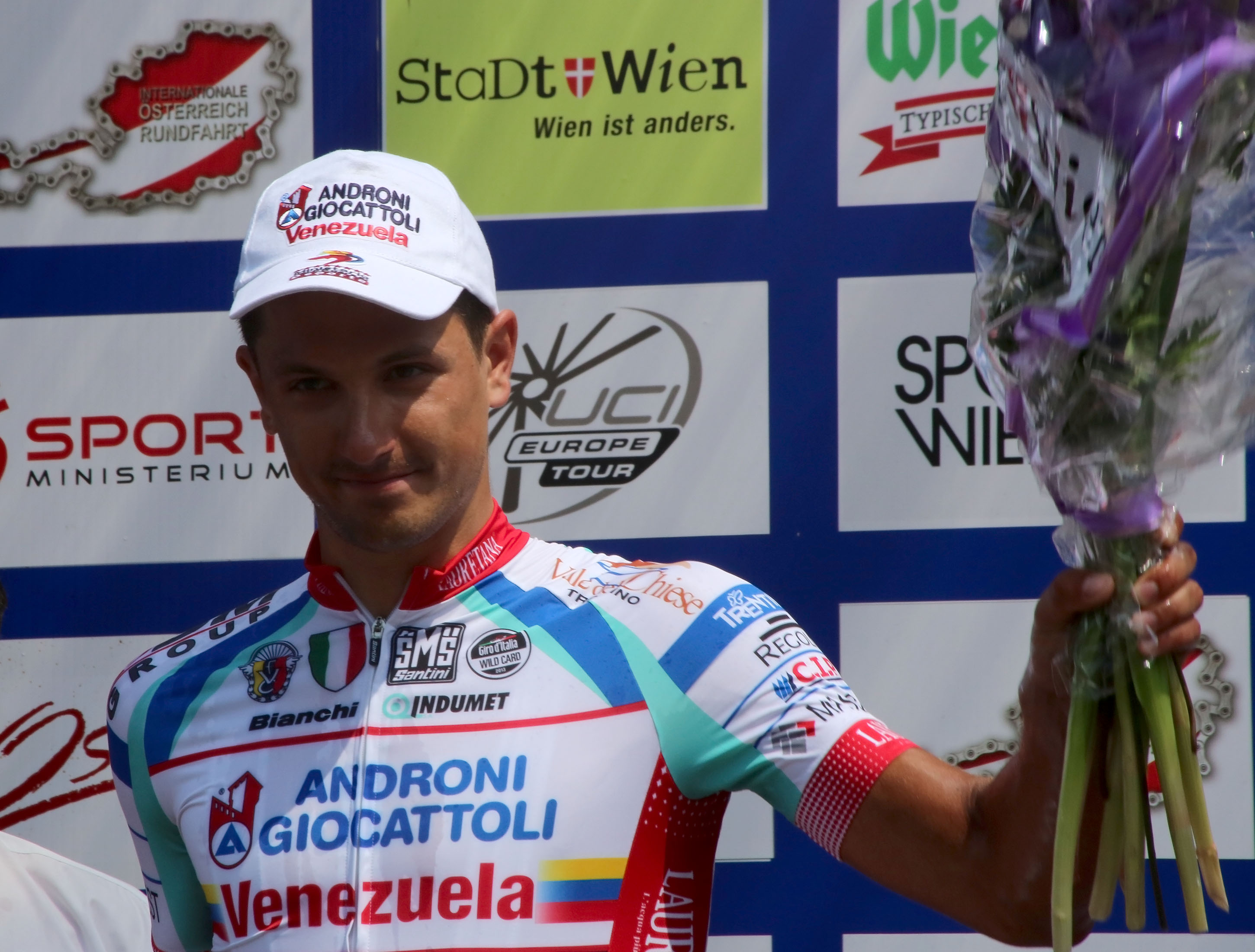 Omar Bertazzo, winner of the final stage, at the award ceremony of the Tour of Austria in Vienna, Austria.